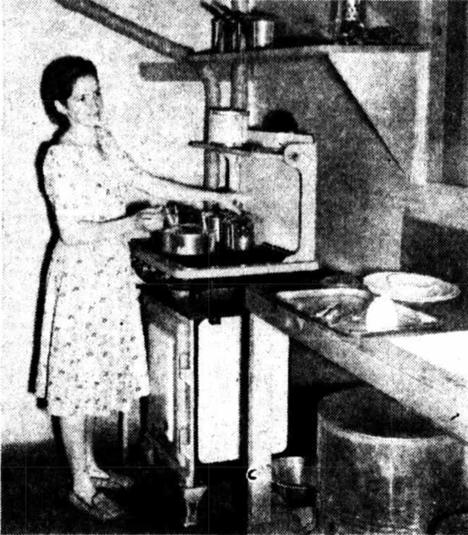 Lucky Squatter. One of Holland Park's latest squatters, Mrs G. L. Rickertt, discovered a modem gas stove in the kitchen of her new home. Here she is preparing dinner for the family. Their quarters are well equipped with water, light, cooking and toilet facilities.